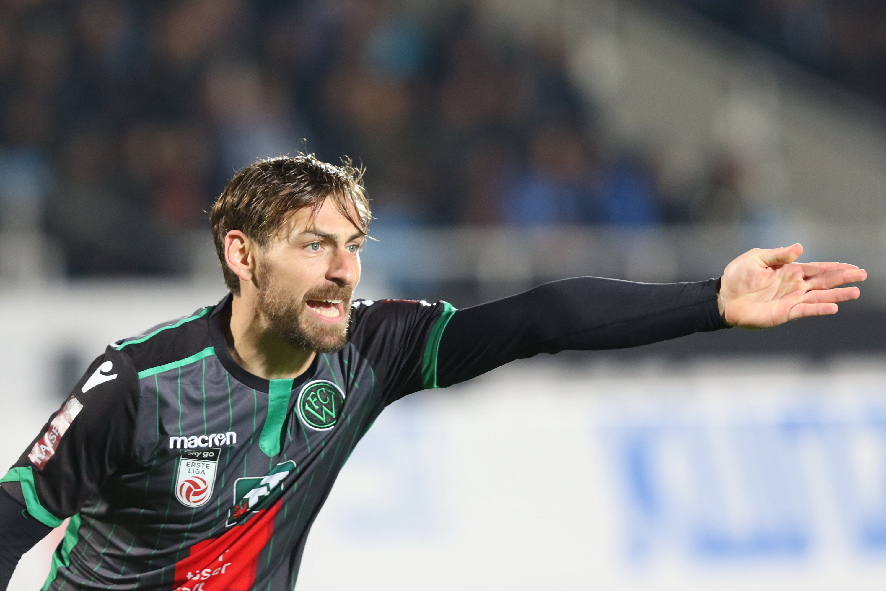 Football-championship Erste Liga 2017–18 - SC Wiener Neustadt (white shirts) vs. FC Wacker Innsbruck (black-green shirts) 0-1. – The photo shows Harald Pichler (FC Wacker Innsbruck).